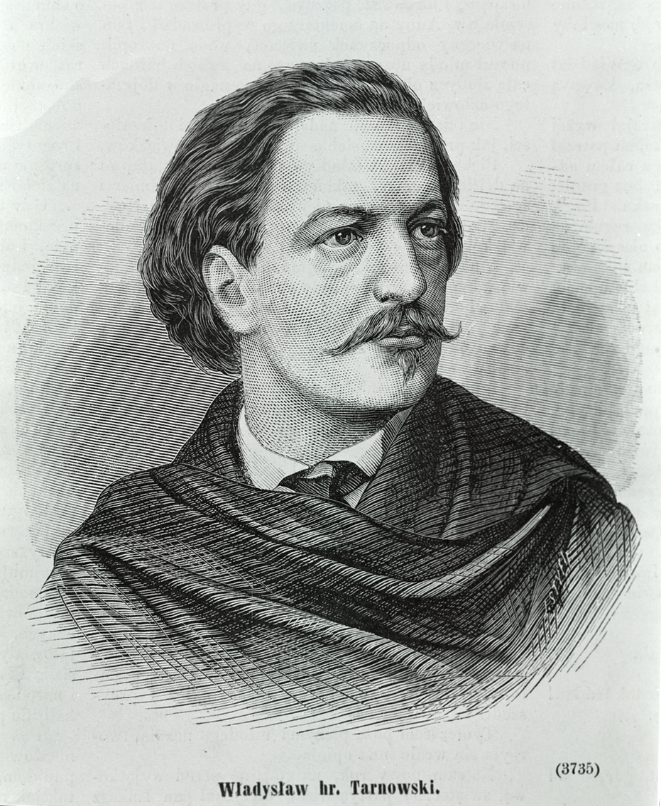 Władysław Tarnowski, wood engraving by Jan Styfi (1841-1921), 1877. This wood engraving was published in the magazine "Kłosy" in 1877, issue 630, p. 49.